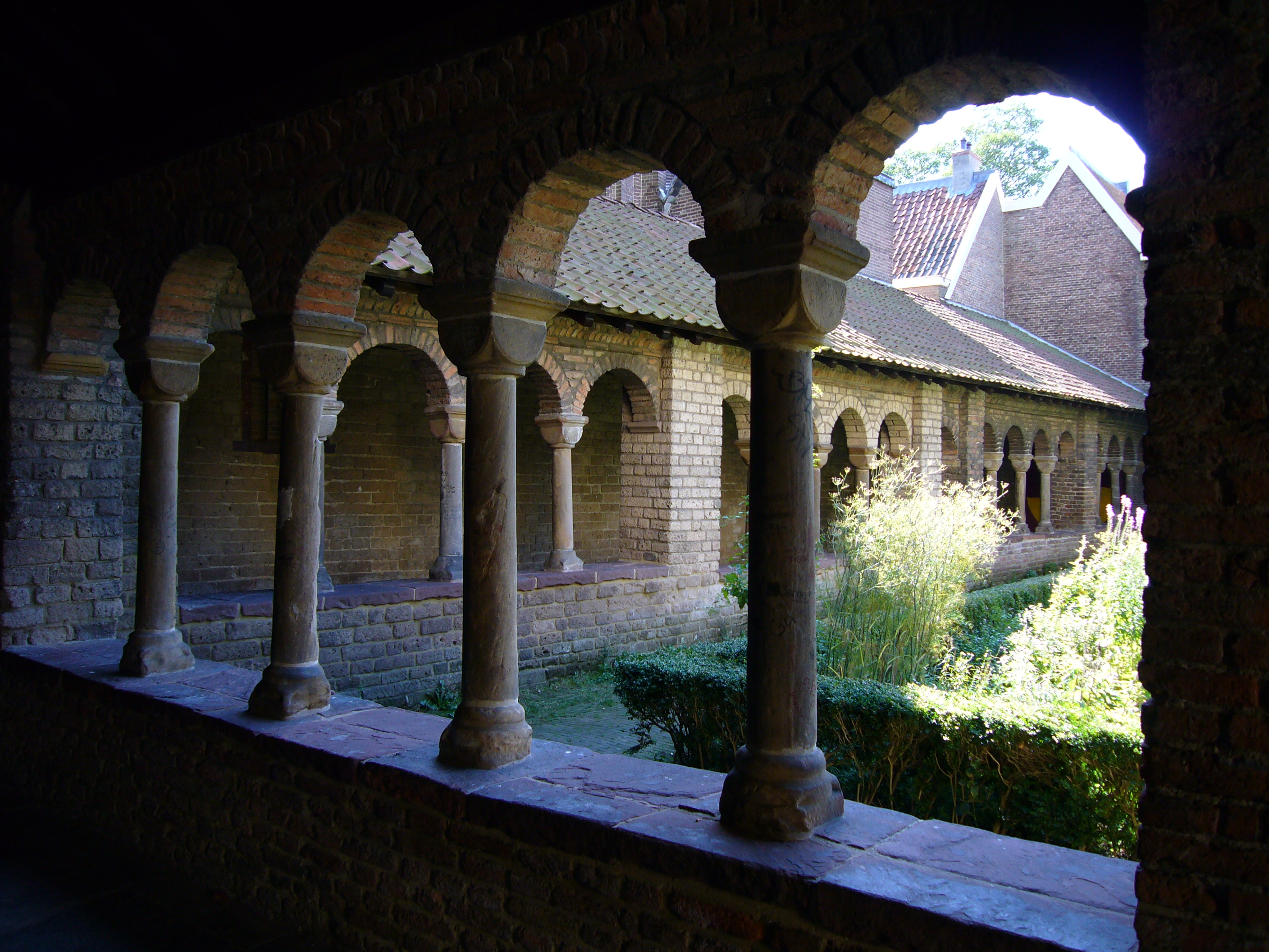 Pandhof Mariakerk Utrecht